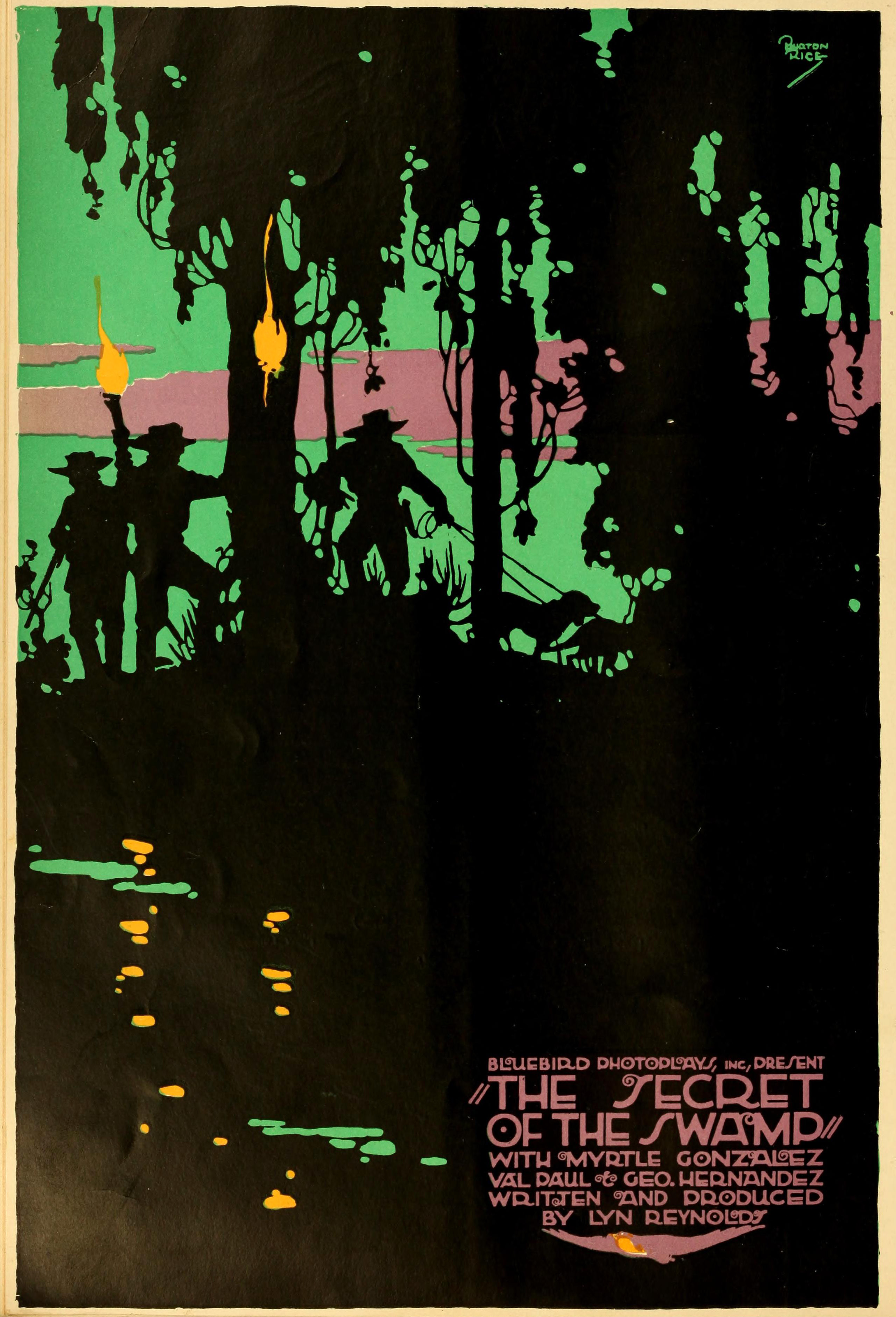 Advertisement in The Moving Picture World